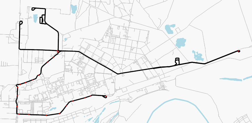 Dzerzhinsk tram system, rendered using OSM data. This map may be incomplete, and may contain errors. Don't rely solely on it for navigation.